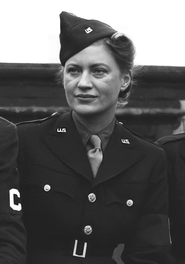 Female war correspondent Lee Miller who covered the U.S. Army in the European Theater during World War II (U.S. Army Center of Military History)